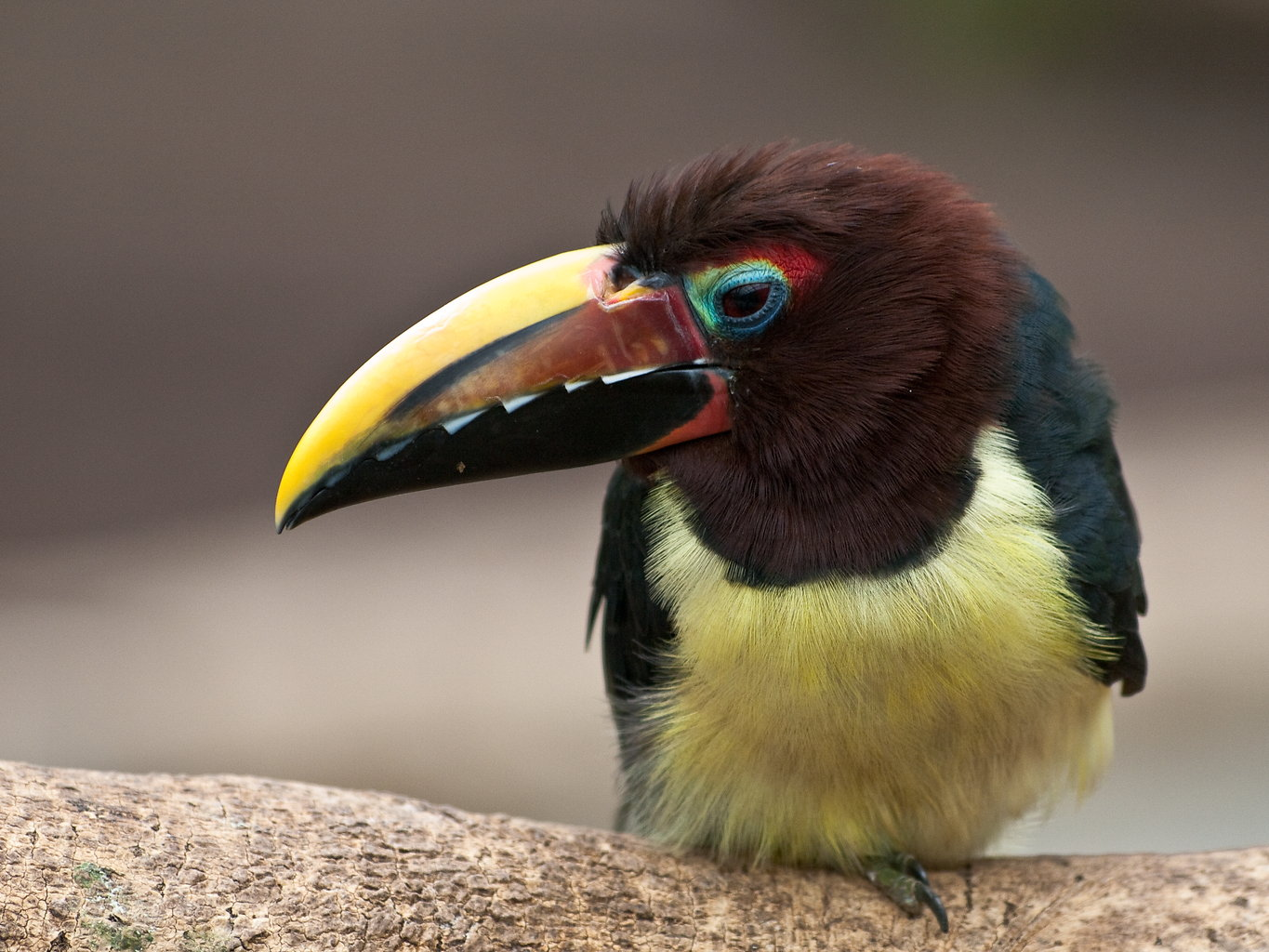 A female Green Aracari in Kakegawa Kacho-en, Kakegawa, Shizuoka, Japan.